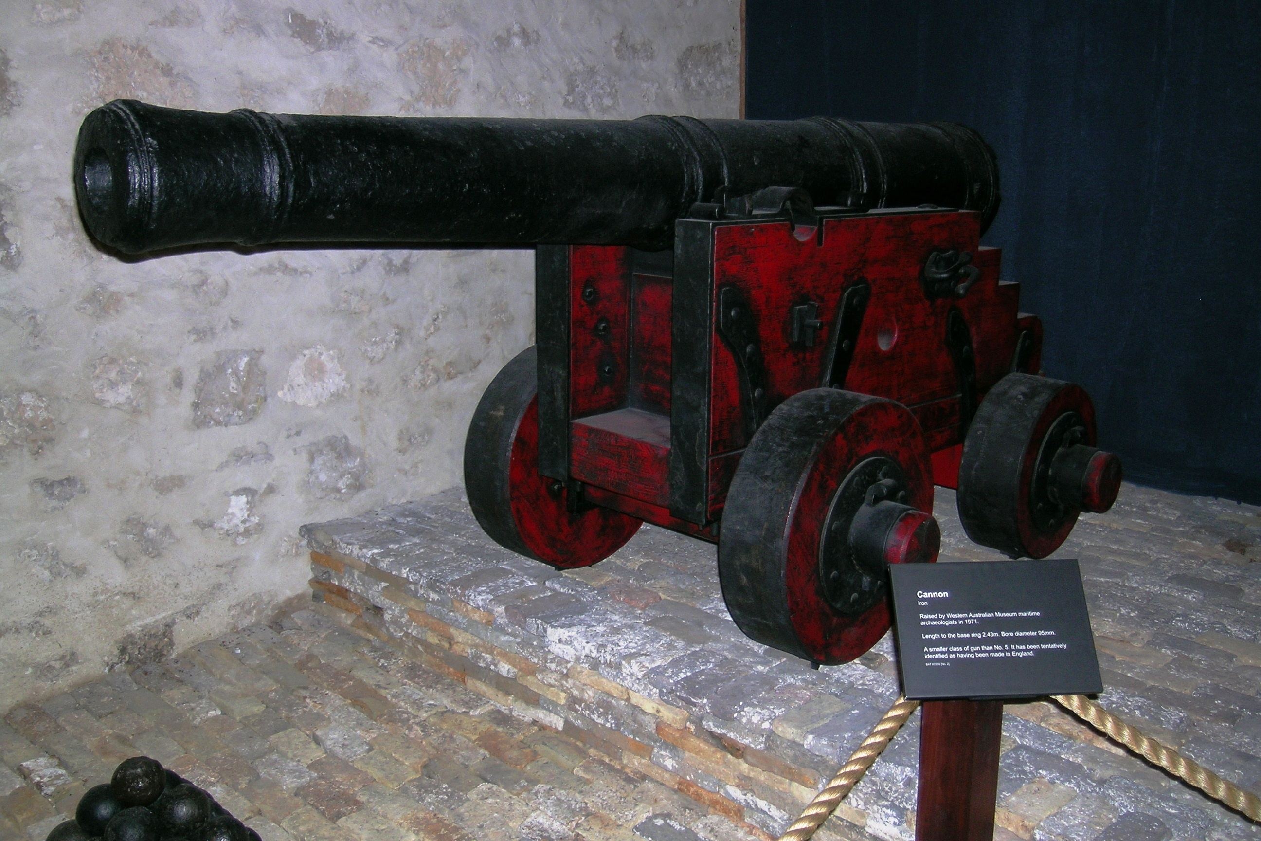 Batavia canon in Shipwreck Museum in Fremantle, Australia